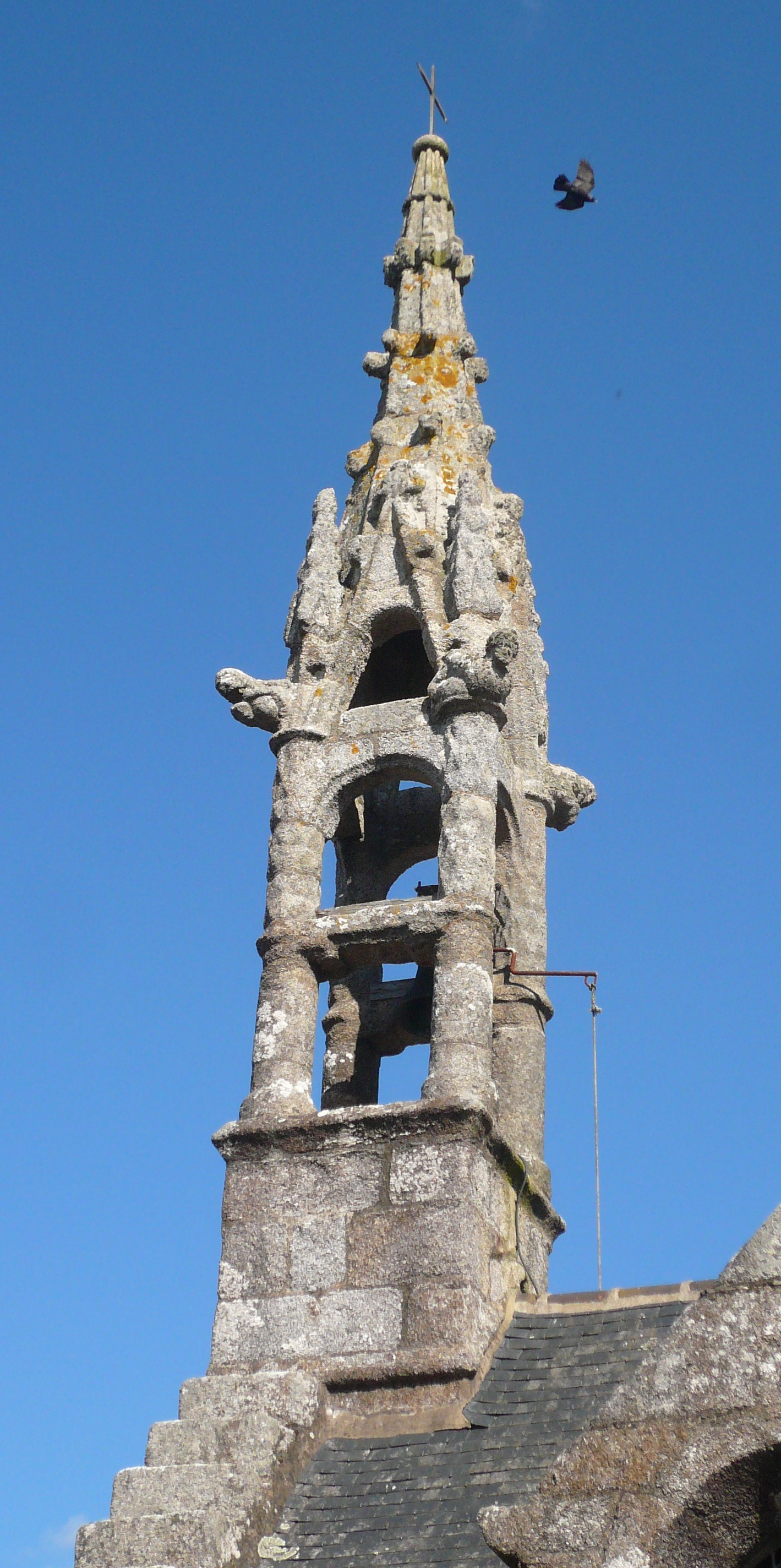 Bell-tower of St. Barbe's chapel in Névez, Finistère, Bretagne, France.